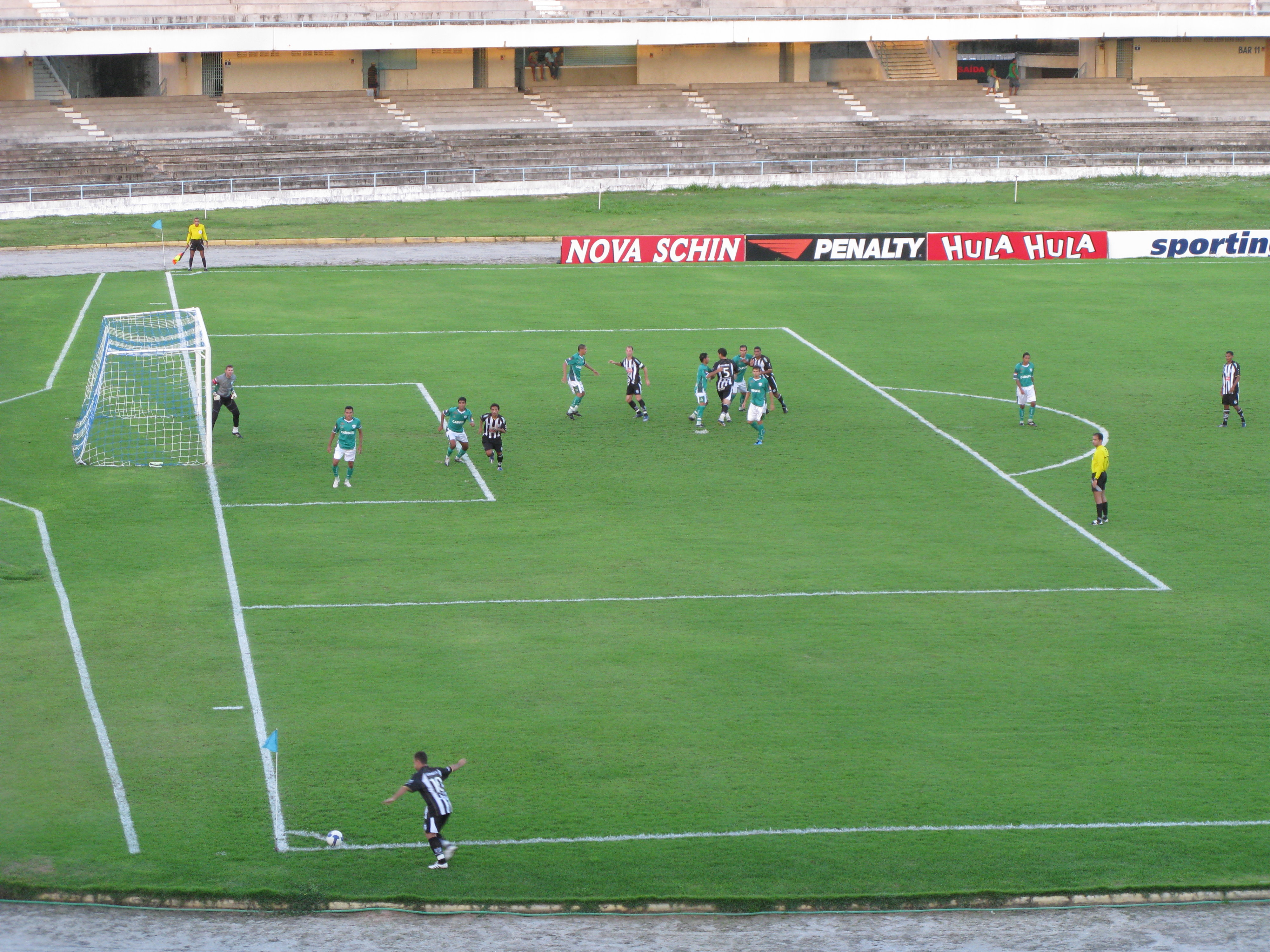 Alecrim vs Treze Football Club.